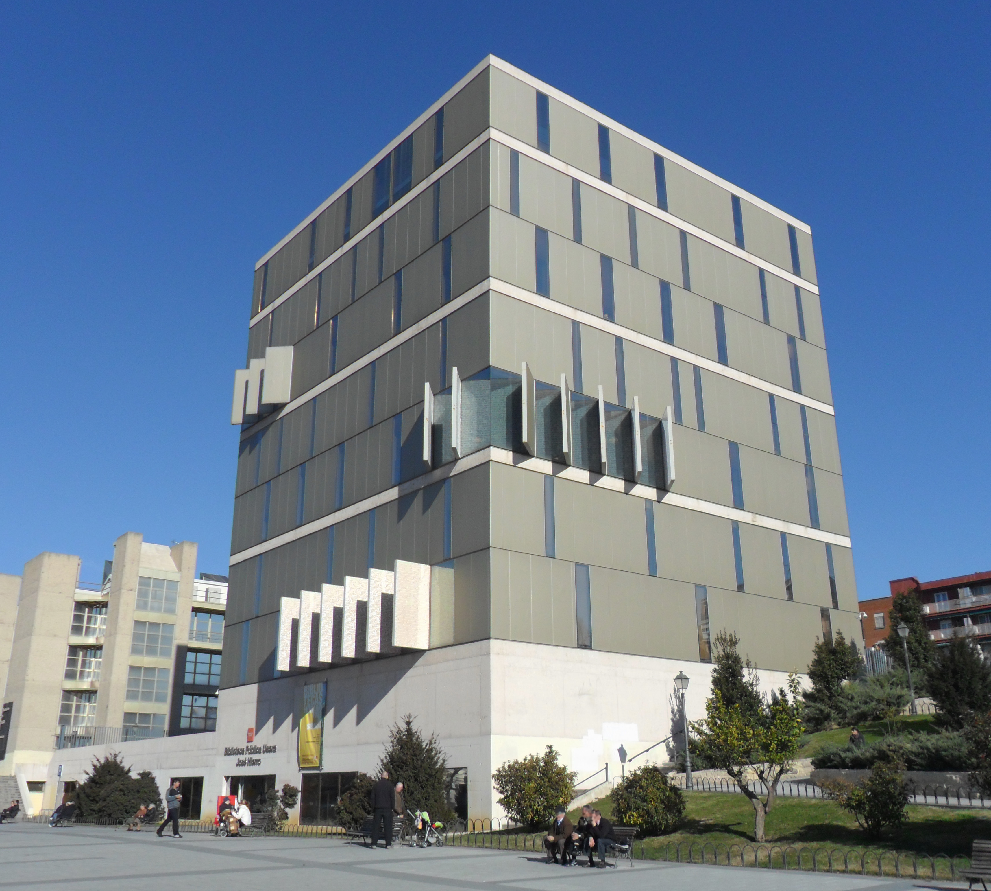 View of José Hierro Public Library in Madrid (Spain).